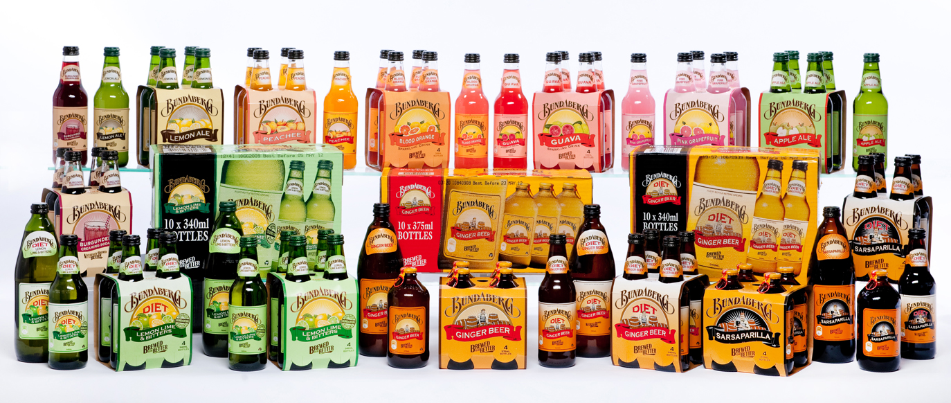 The Bundaberg Brewed Drinks family in 2011/